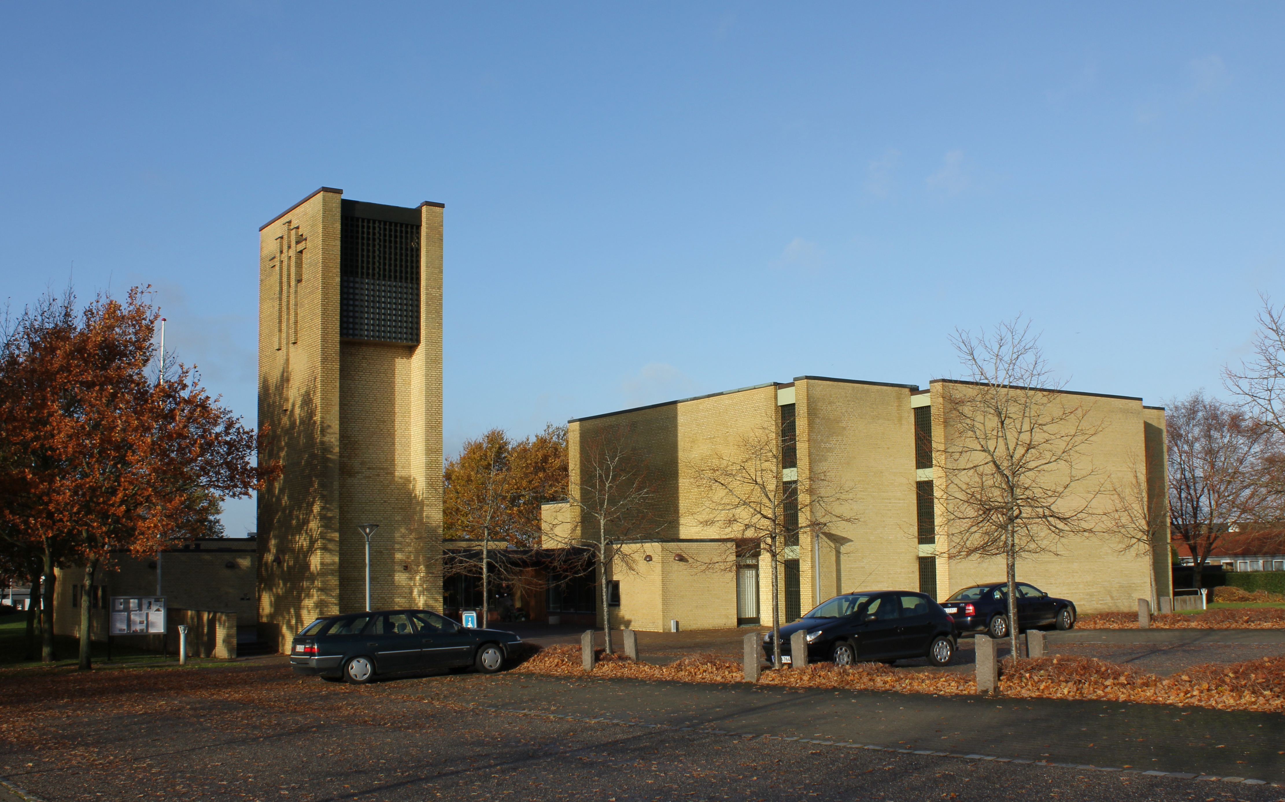 Simon Peter's church in Kolding, Denmark. It was inaugurated second September 1979 and is thus Kolding's newest church. The very minimalist style is performed by the architect Holger Jensen. Simon Peter's Church is located in an old apple orchard. The building itself is made of yellow hand-molded bricks and all the furniture is of pine. The sanctuary is a large main room and has a total of 375 seats.